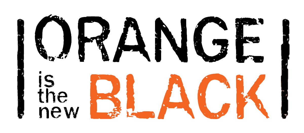 Original logo used for the promotion of the television series Orange is the new Black